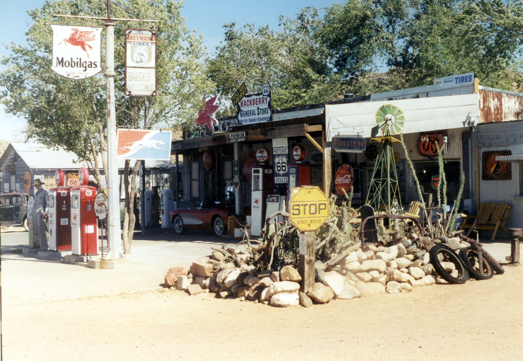 (1 in a multiple picture set) The small railroad town of Hackberry thrived along Old Rt. 66. It was named for the fruit bushes around the spring there. Today not much of the town exists, but this old gas station and surrounding ruins is really worth the stop. The people here have souvenirs of the road, and lots of historical pictures and artifacts. You can see that there was once a auto repair shop here, along with several duplex cabins. It is a great spot to get pictures of what the Mother Road used to look like.